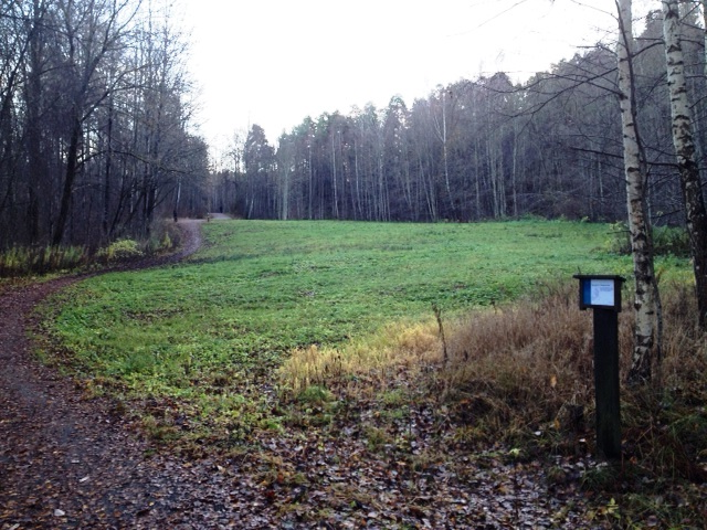 Fangeleir Fiskevollen south of Oslo in 2013, the site was used as a prison camp during the Second World War.